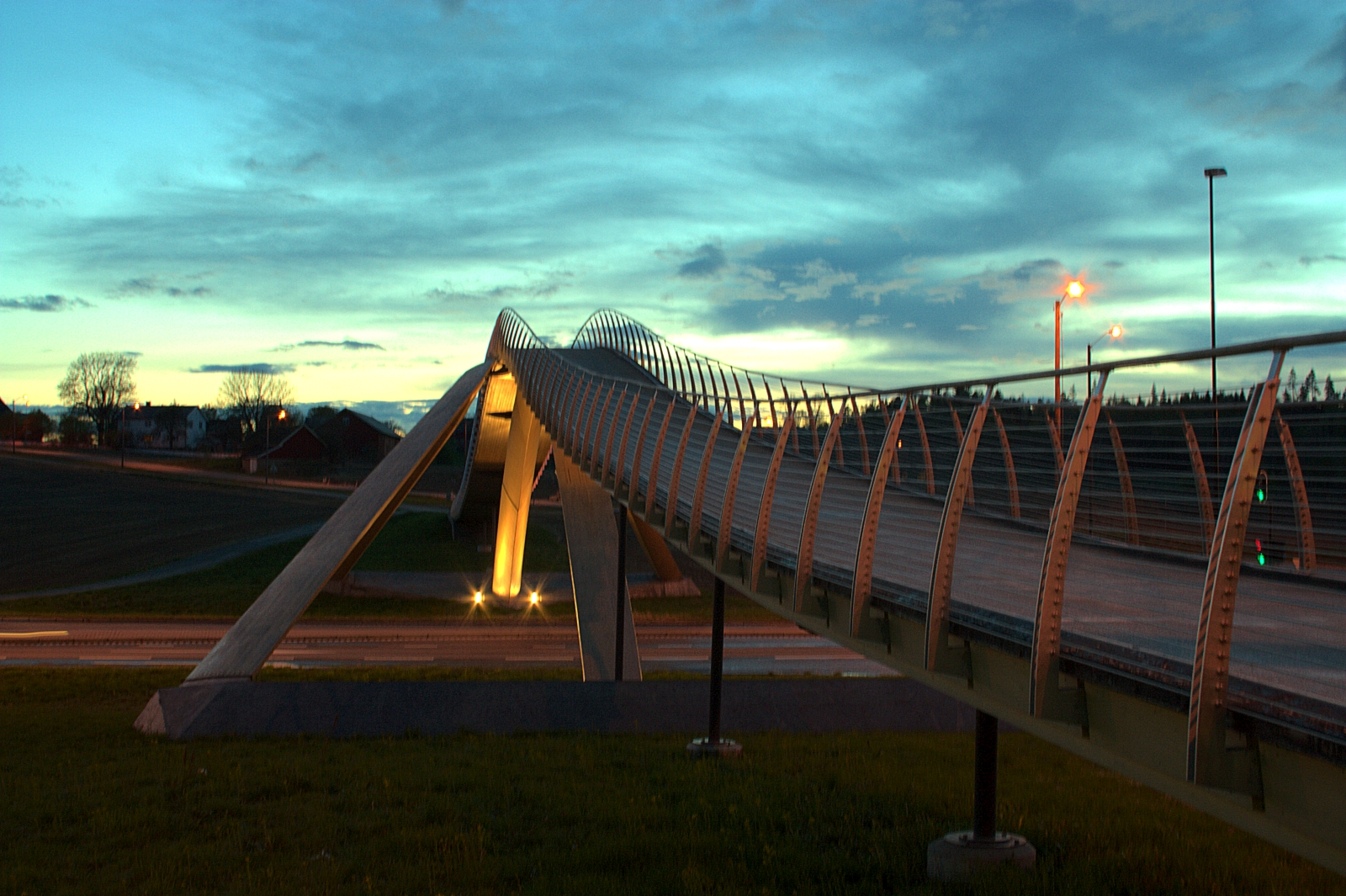 The Vebjørn Sand Da Vinci Project bridge, based on a design by Leonardo Da Vinci.